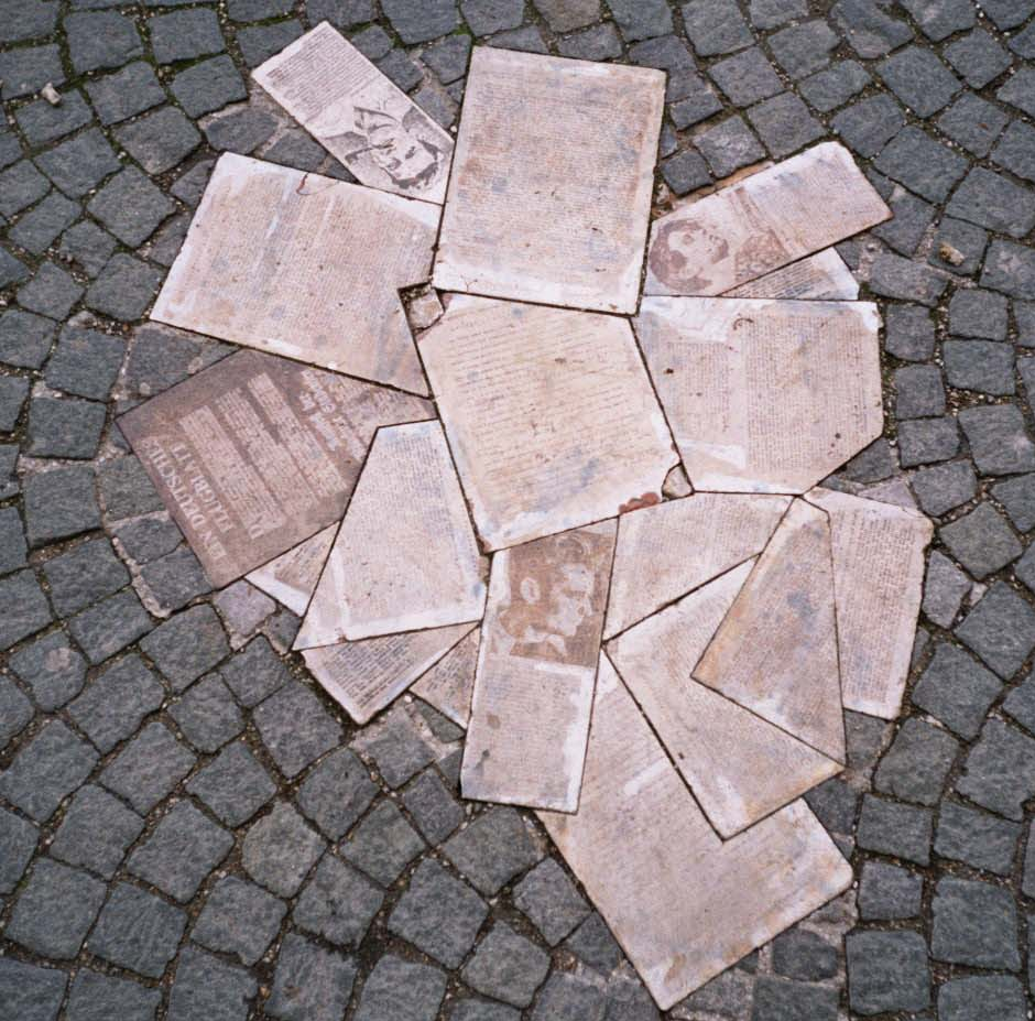 Monument to Hans and Sophie Scholl and the "White Rose" (German: Die Weiße Rose) resistance movement against the Nazi regime, in front of Ludwig Maximilian University of Munich, Bavaria, Germany.